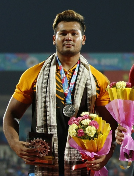 Athletes during 22nd Asian Athletics Championships in Bhubaneswar.